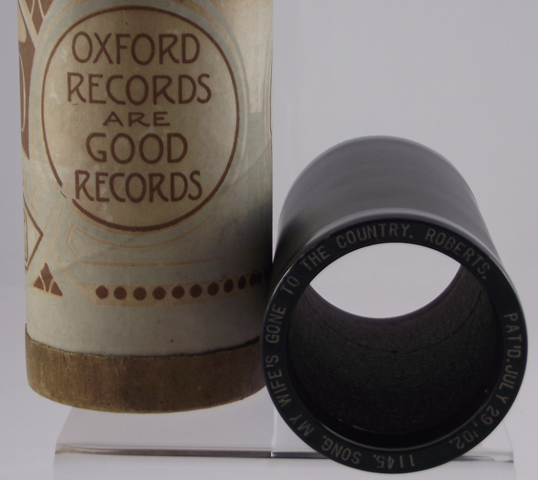 "Indestructible" cylinder record